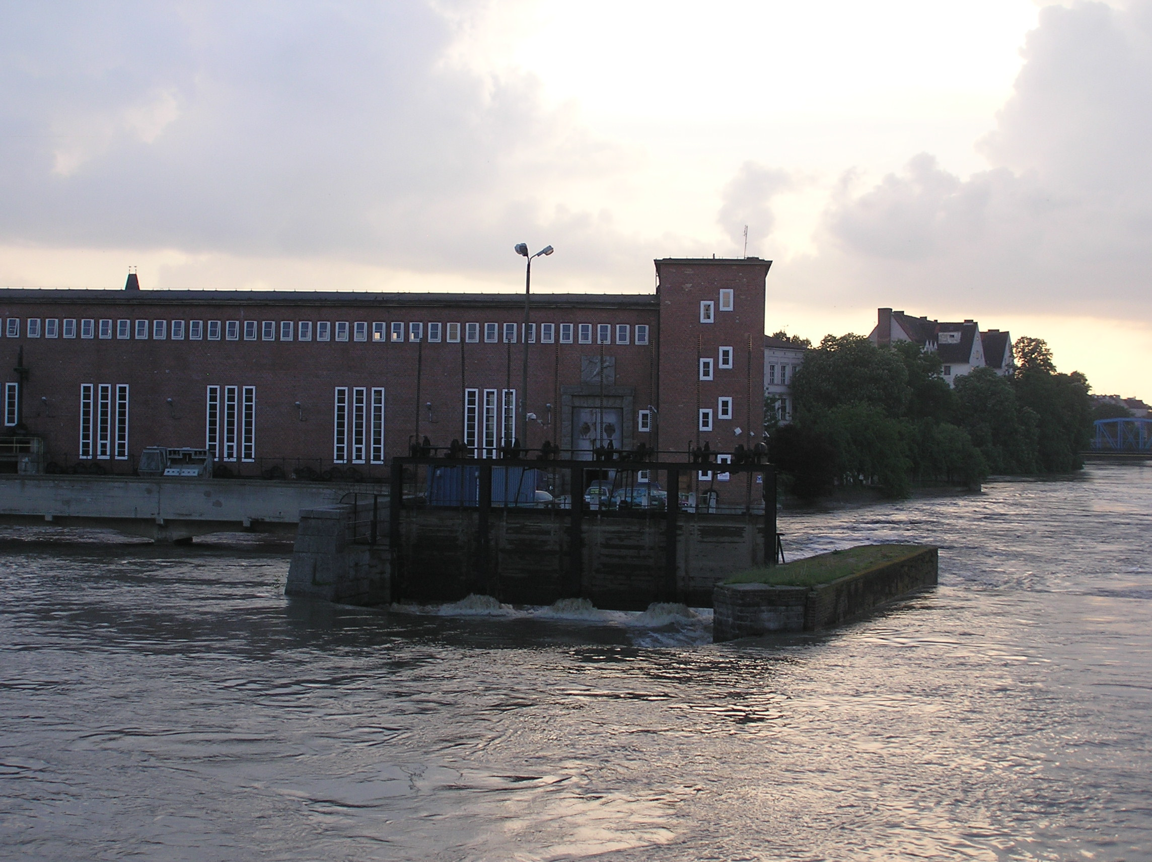 Wrocław, weir of southern hydroelectric plant in Wrocław